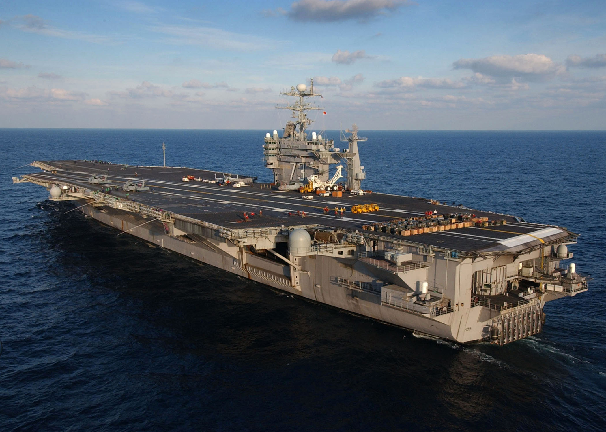 Atlantic Ocean – Nimitz-class aircraft carriers USS George Washington (CVN 73) and USS Harry S. Truman (CVN 75) conducts an ammunition transfer between ships. Truman and embarked Carrier Air Wing Eight (CVW-8) are currently participating in carrier qualifications of the East Coast of the United States.